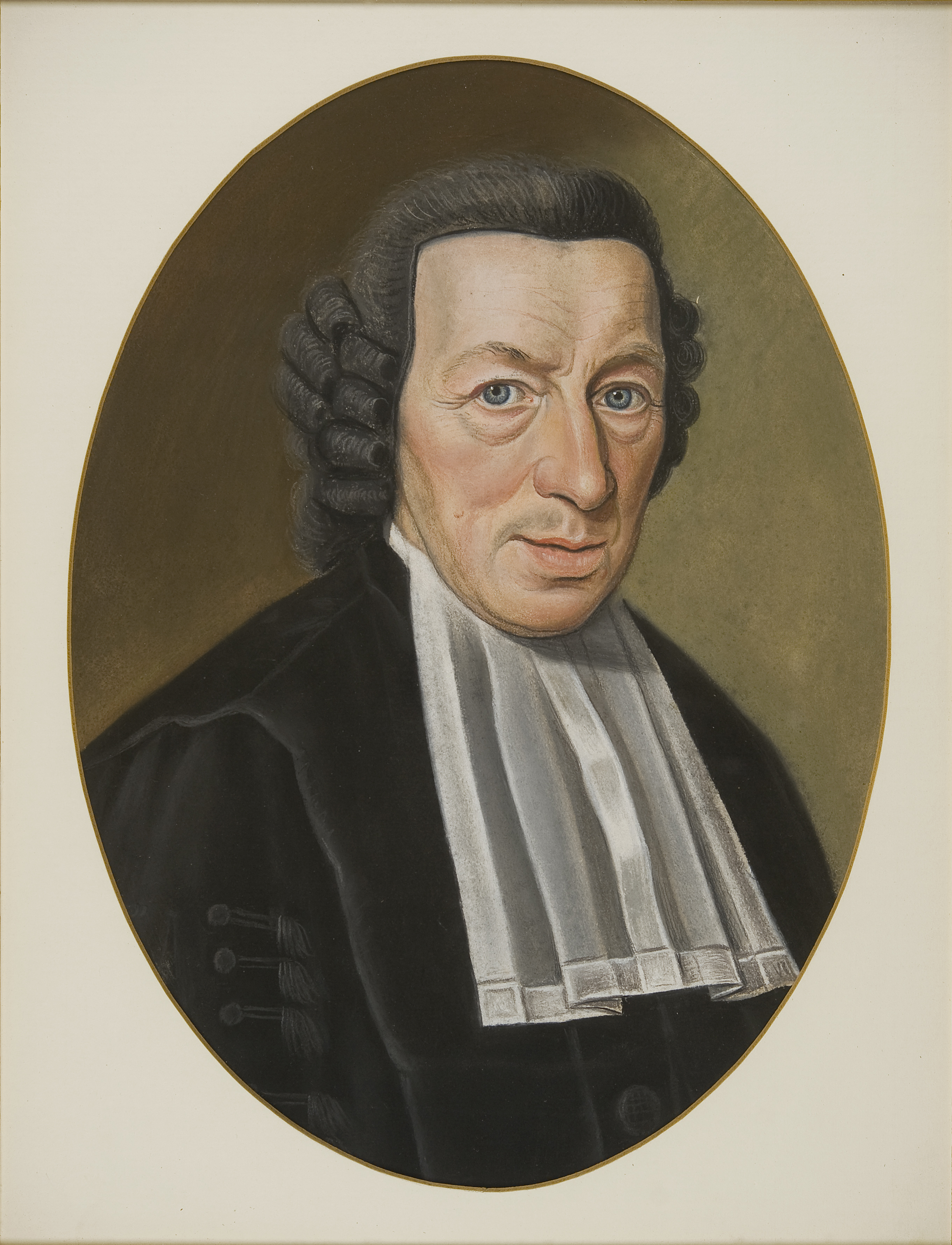 Petrus Abresch (1736-1812) niederländischer reformierter Theologe